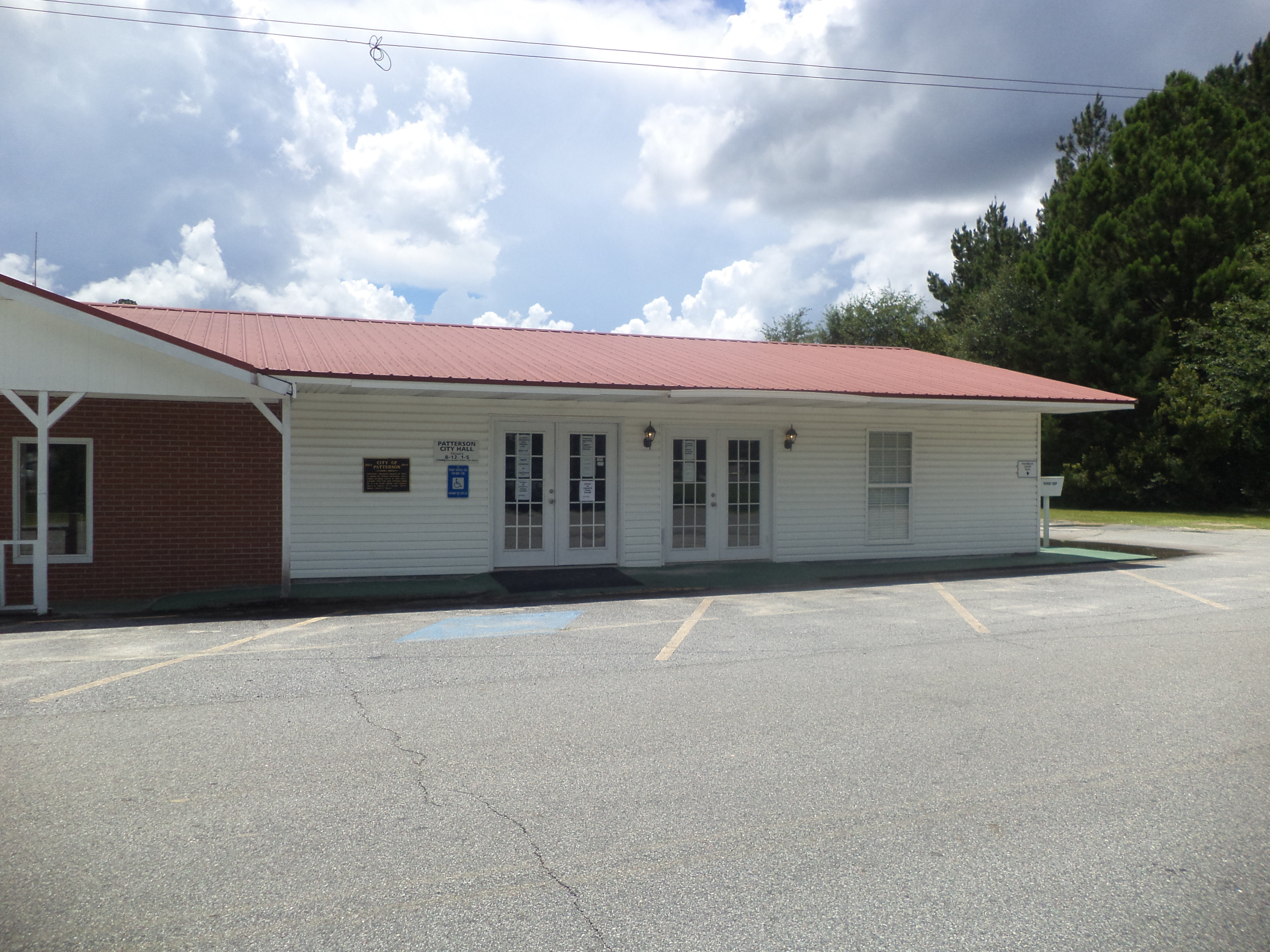 Patterson City Hall, 5535 Gardner St, Patterson, Pierce County, Georgia